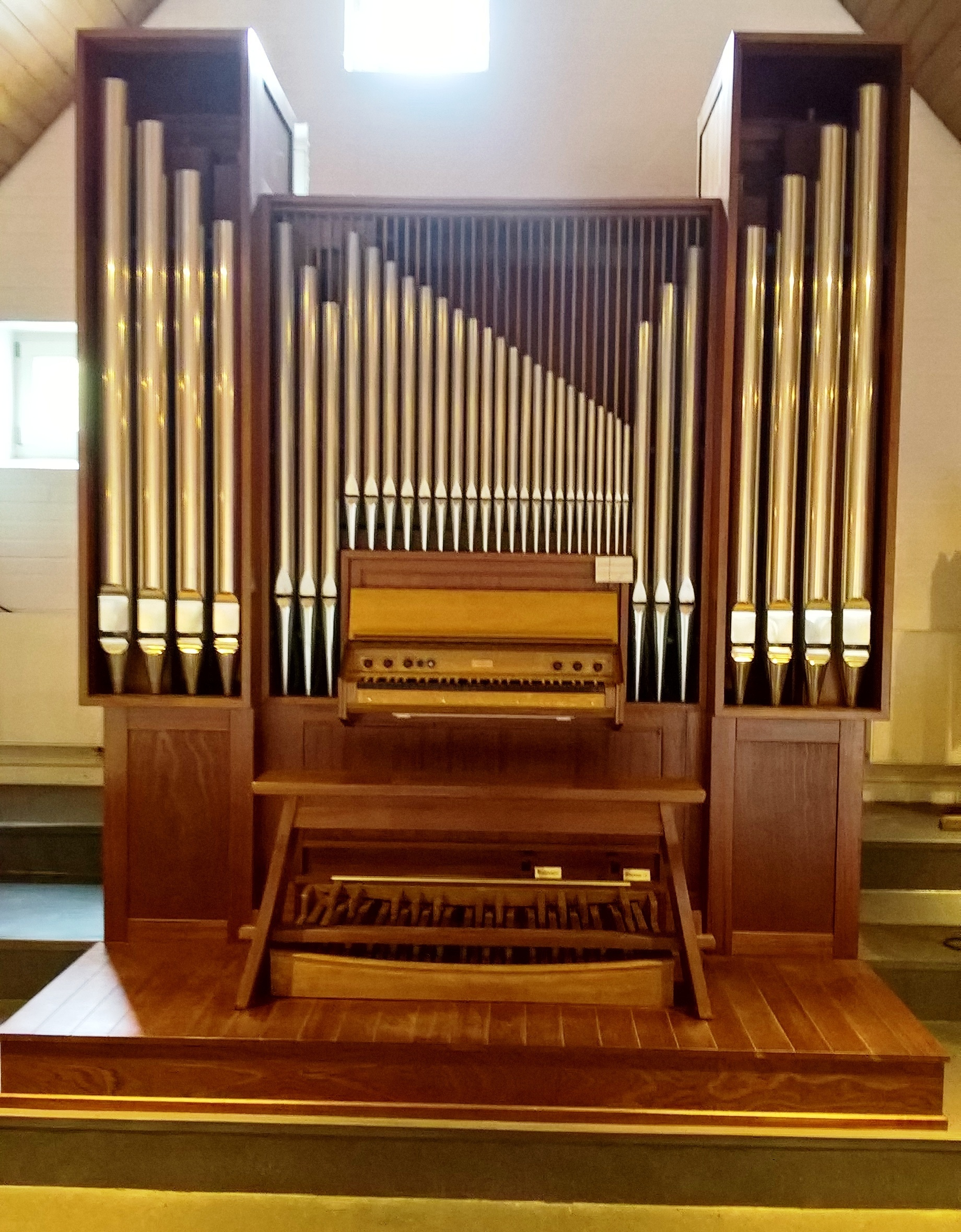 organ church Hinrichsfehn 2019